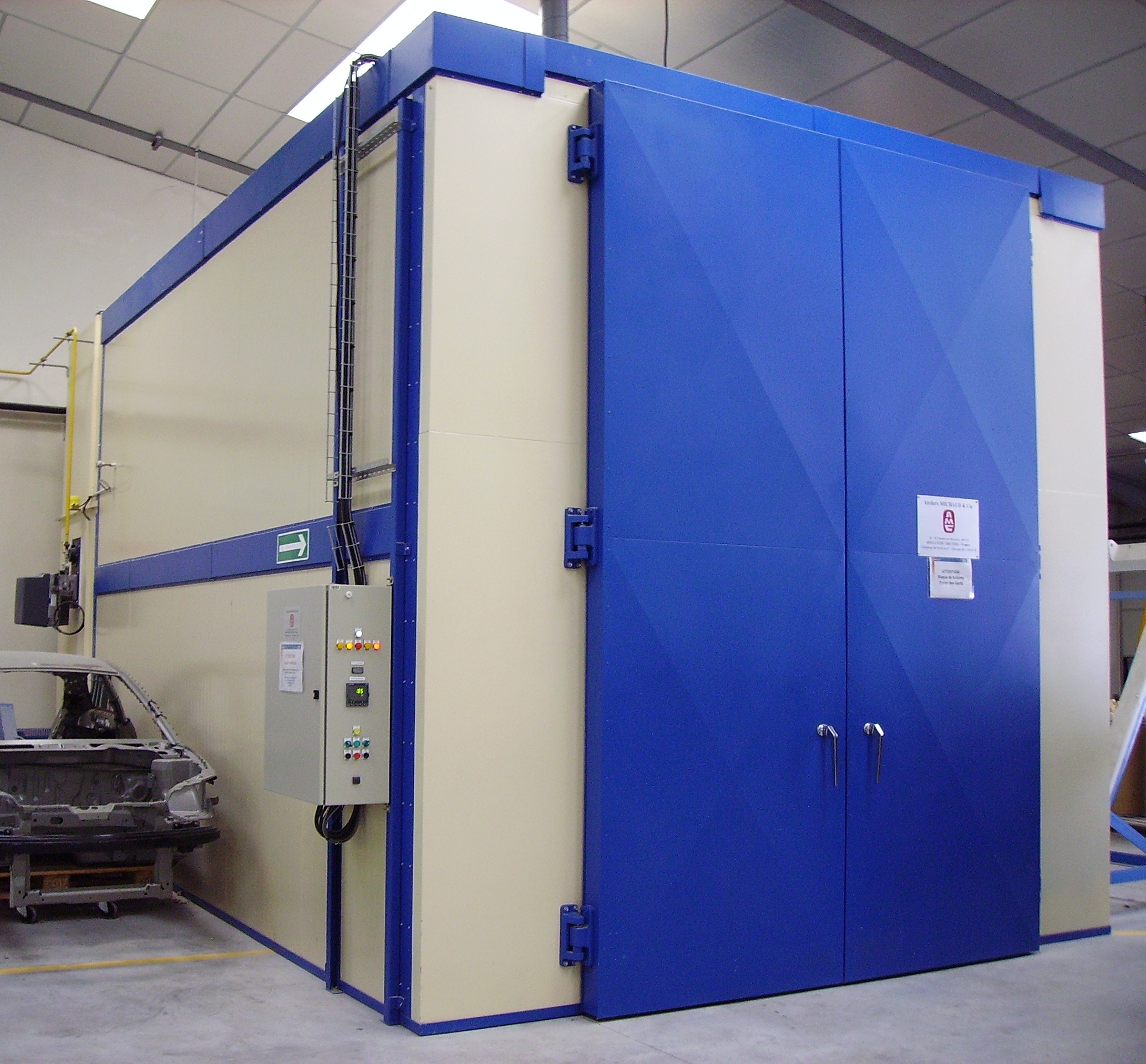 Industrial heating oven, heating by convection - volume: 62.4 m³. Max. temperature: 250 °C. Natural gas burner - power: 300 kW. Thermal insulation: mineral wool (thickness: 150 mm).